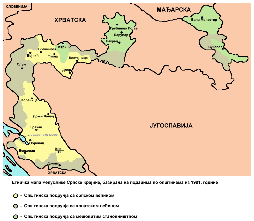 Ethnic map of the Republic of Serbian Krajina, based on 1991 municipality data.